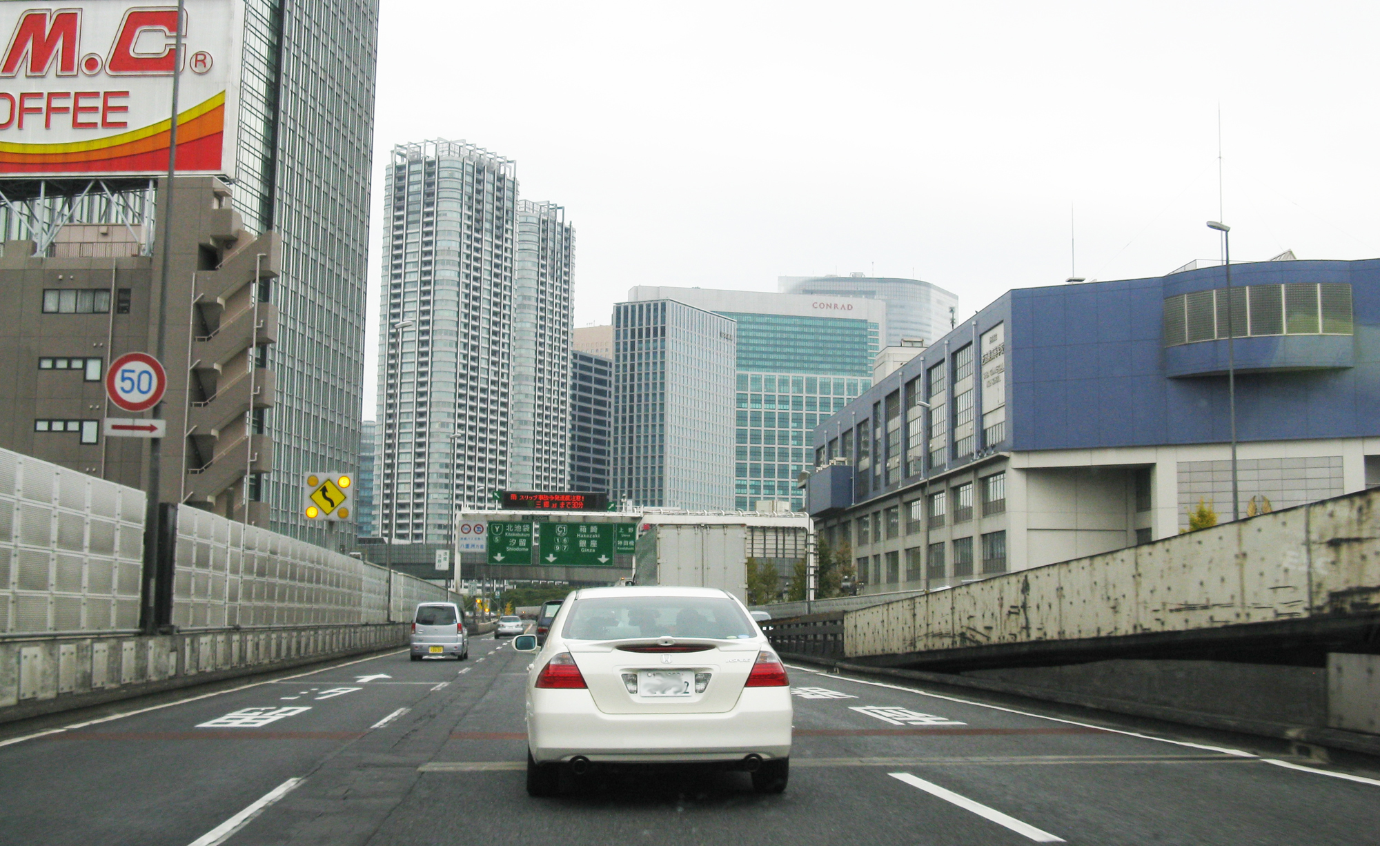 I took this photo.